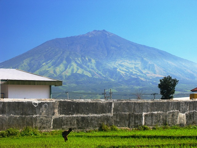 Mount Arjuna viewed from Malang